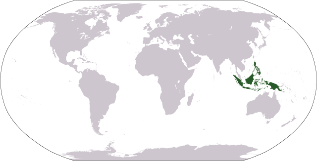 World map depicting the Malay Archipelago; includes islands per Oxford English Dictionary and Encyclopaedia Britannica Map adapted from PDF world map at CIA World Fact Book